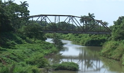 San Cristobal river in Western Cuba